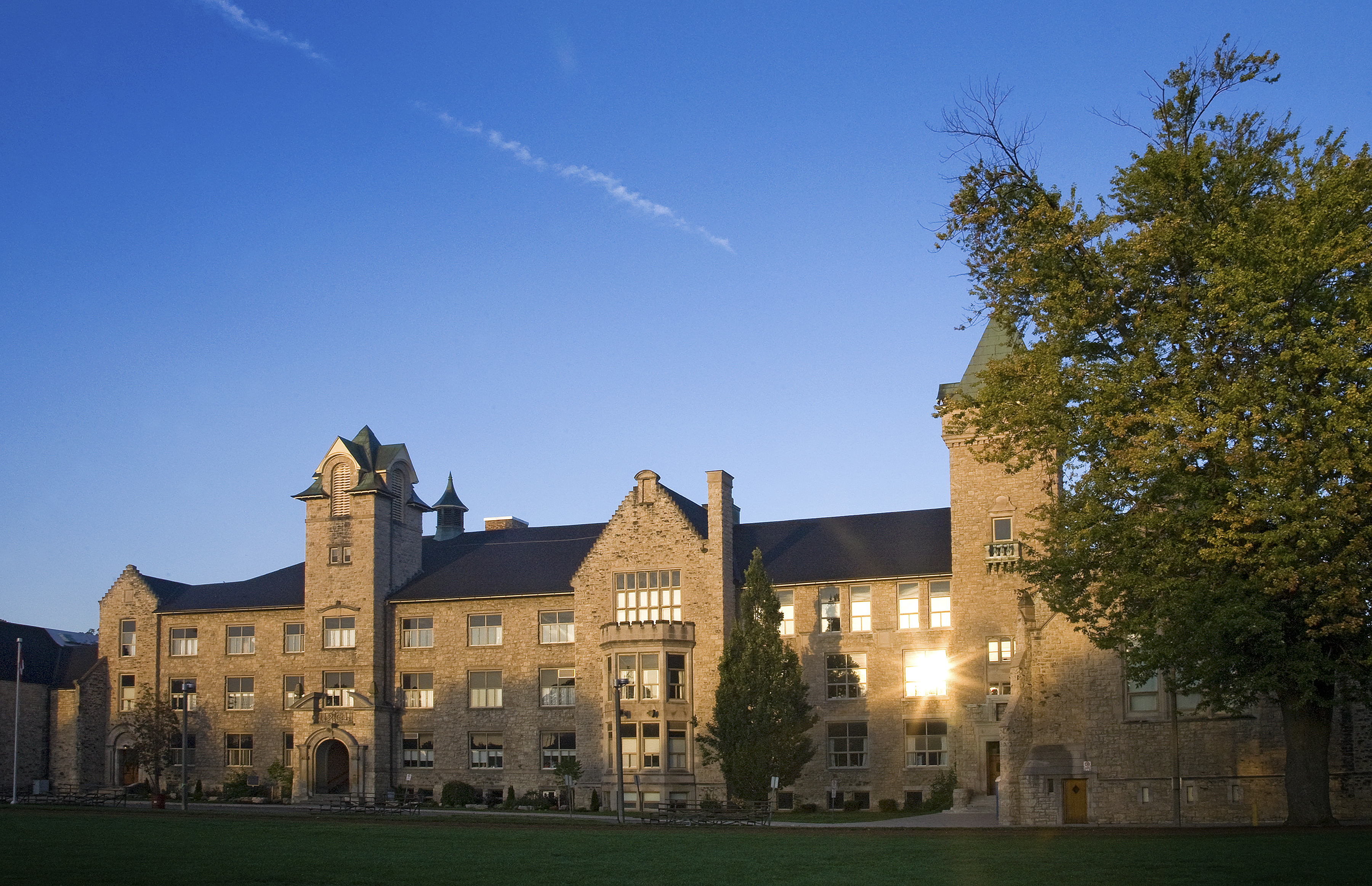 Galt Collegiate Institute is a 3-1/2 story Scottish Baronial style building, built from limestone quarried on site in 1854. It still serves (2015) as a core high school for the City of Cambridge, Ontario